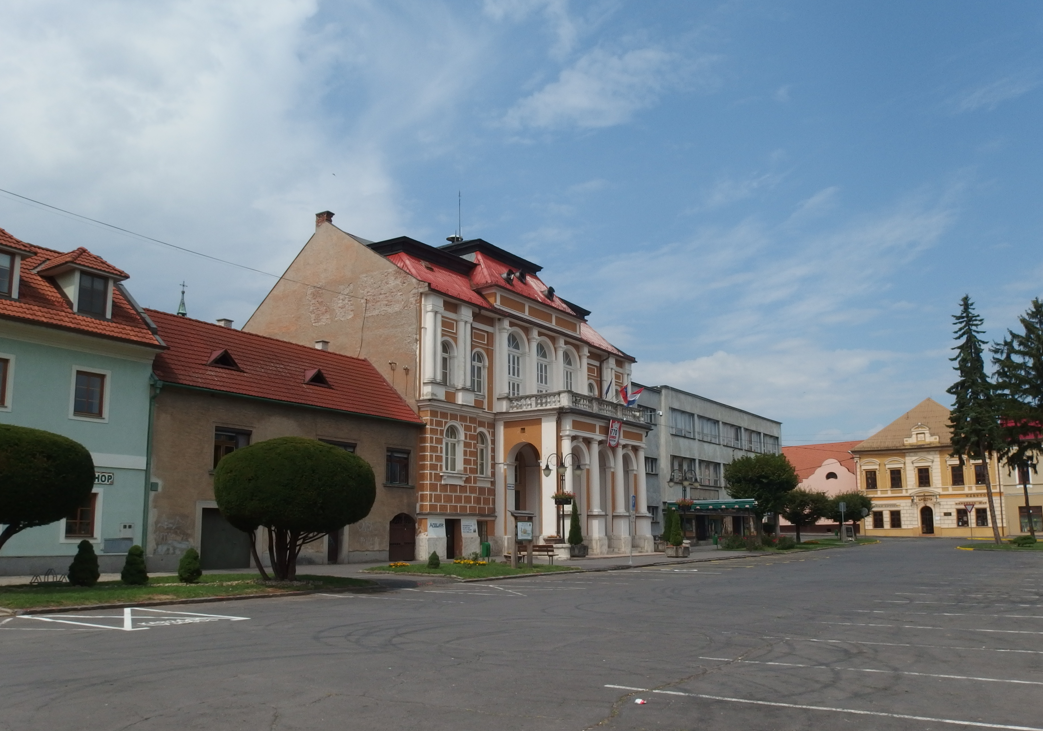 Krupina, Slovakia. Square Svätotrojičné námestie.